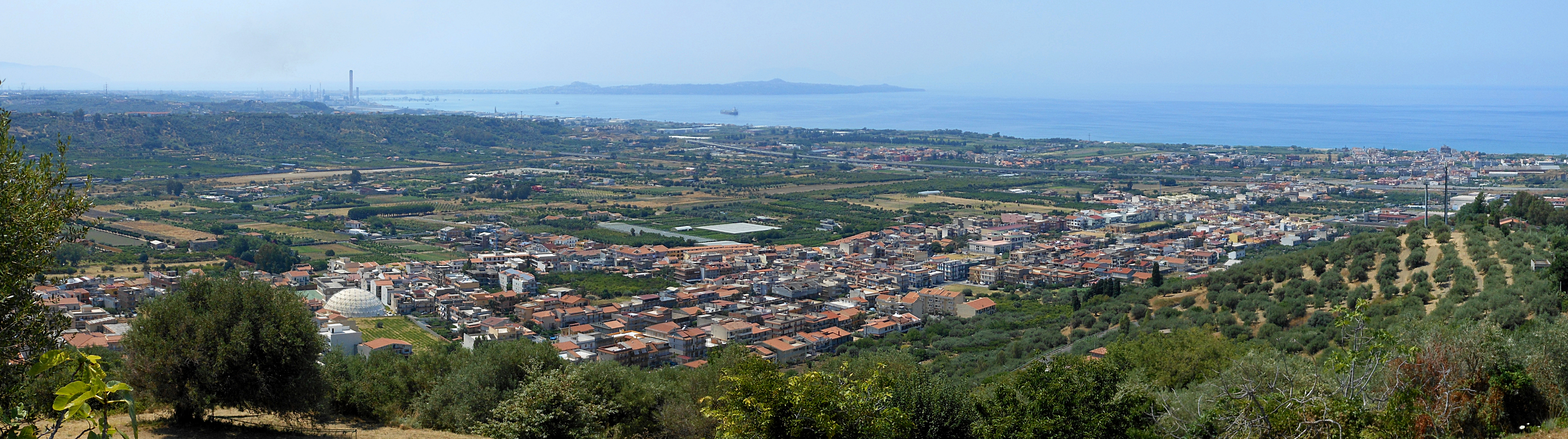 View of Torregrotta and Niceto valley, Italy.